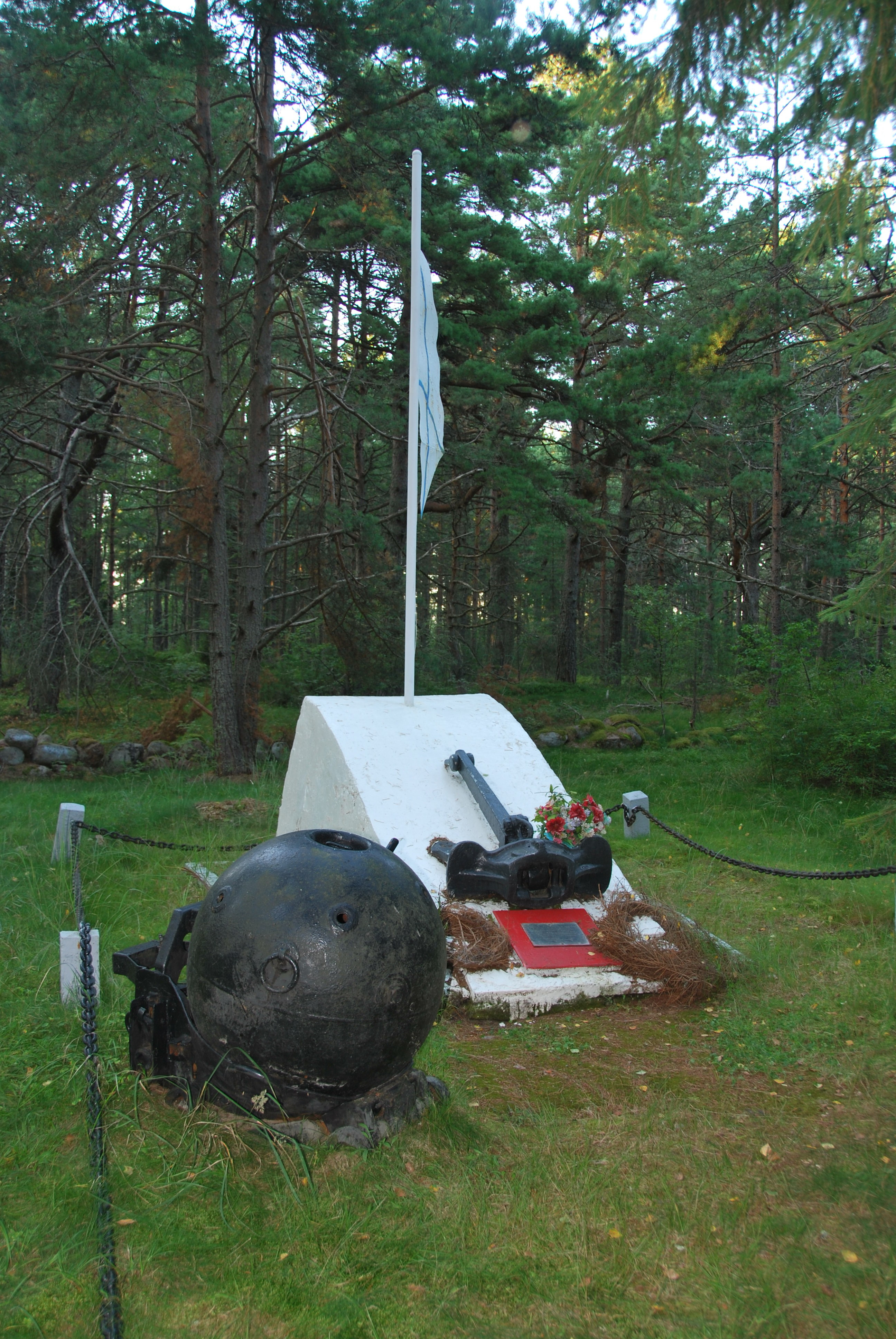 War memorial at Lavansaari